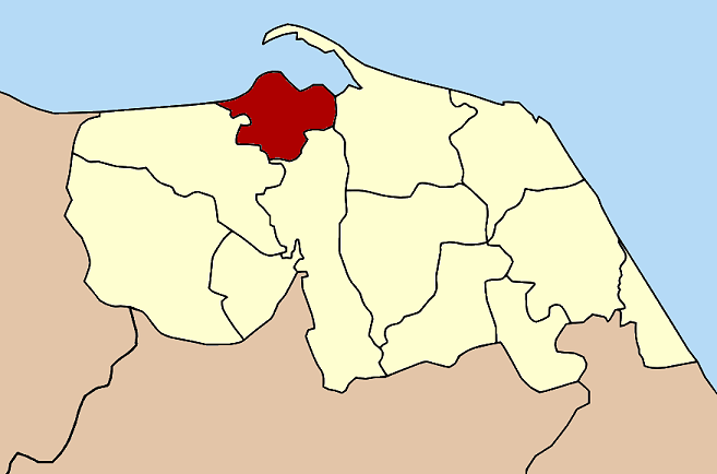 Map of Pattani Province, Thailand, highlighting the district Mueang Pattani (อำเภอเมืองปัตตานี)